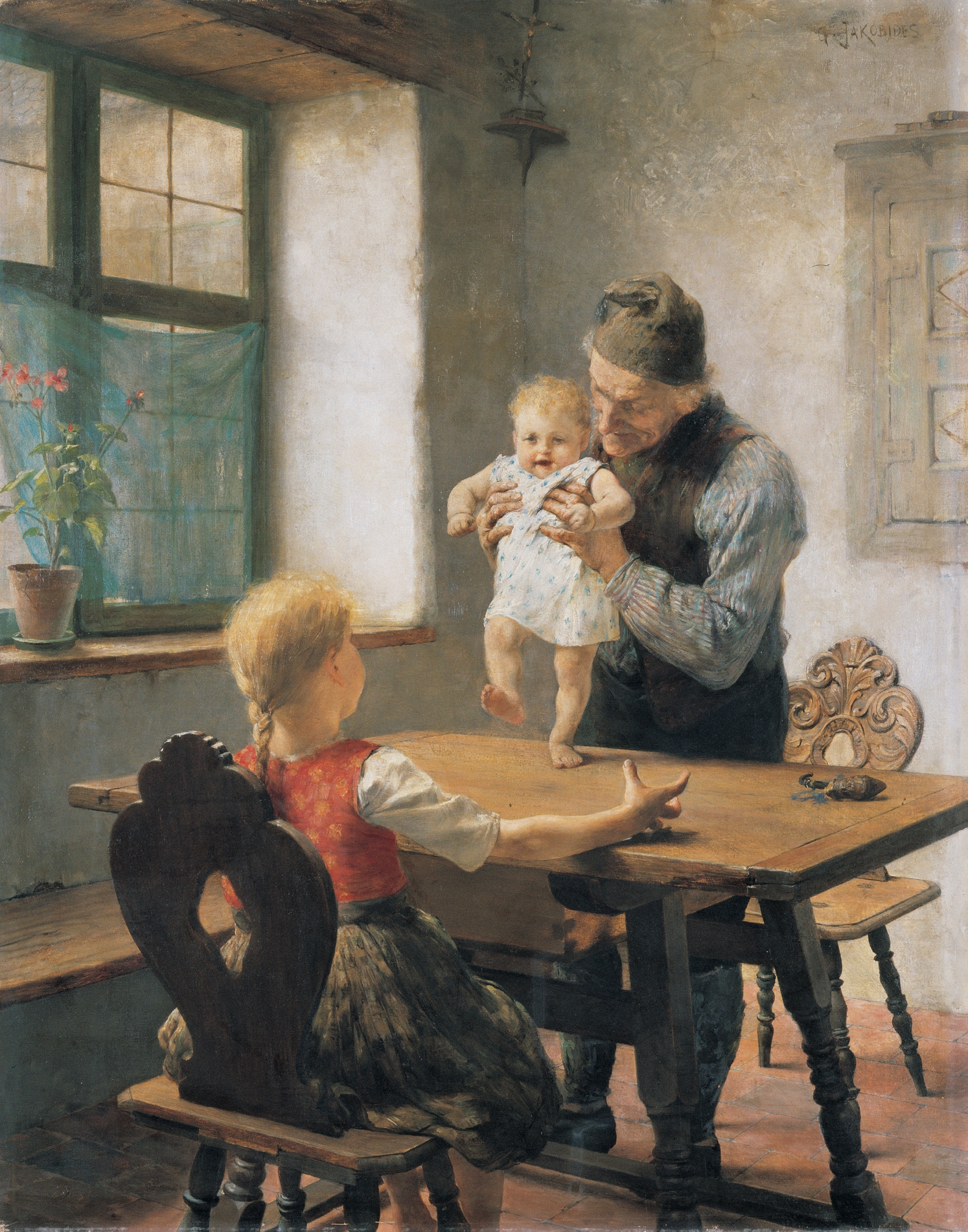 The first steps